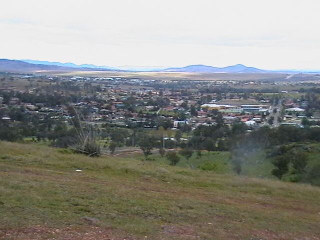 Muswellbrook, New South Wales